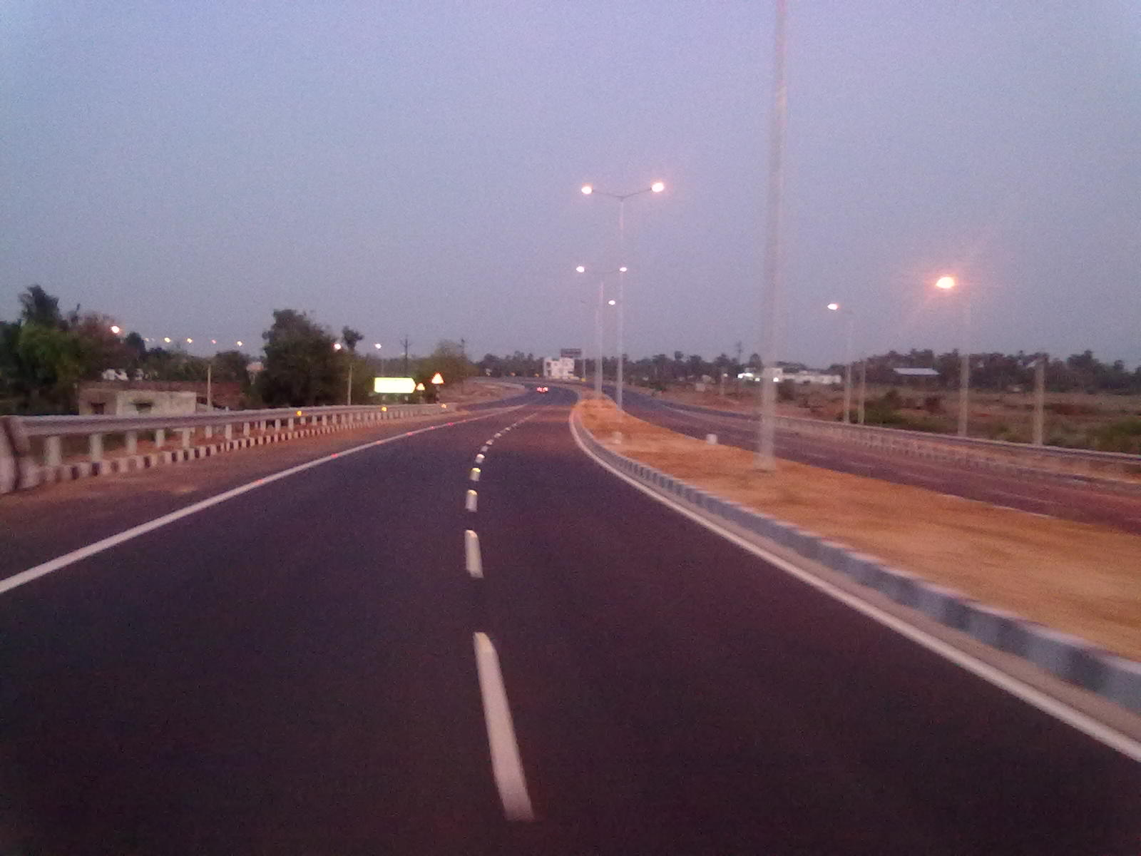 This is NH67 in Thanjavur during evening...